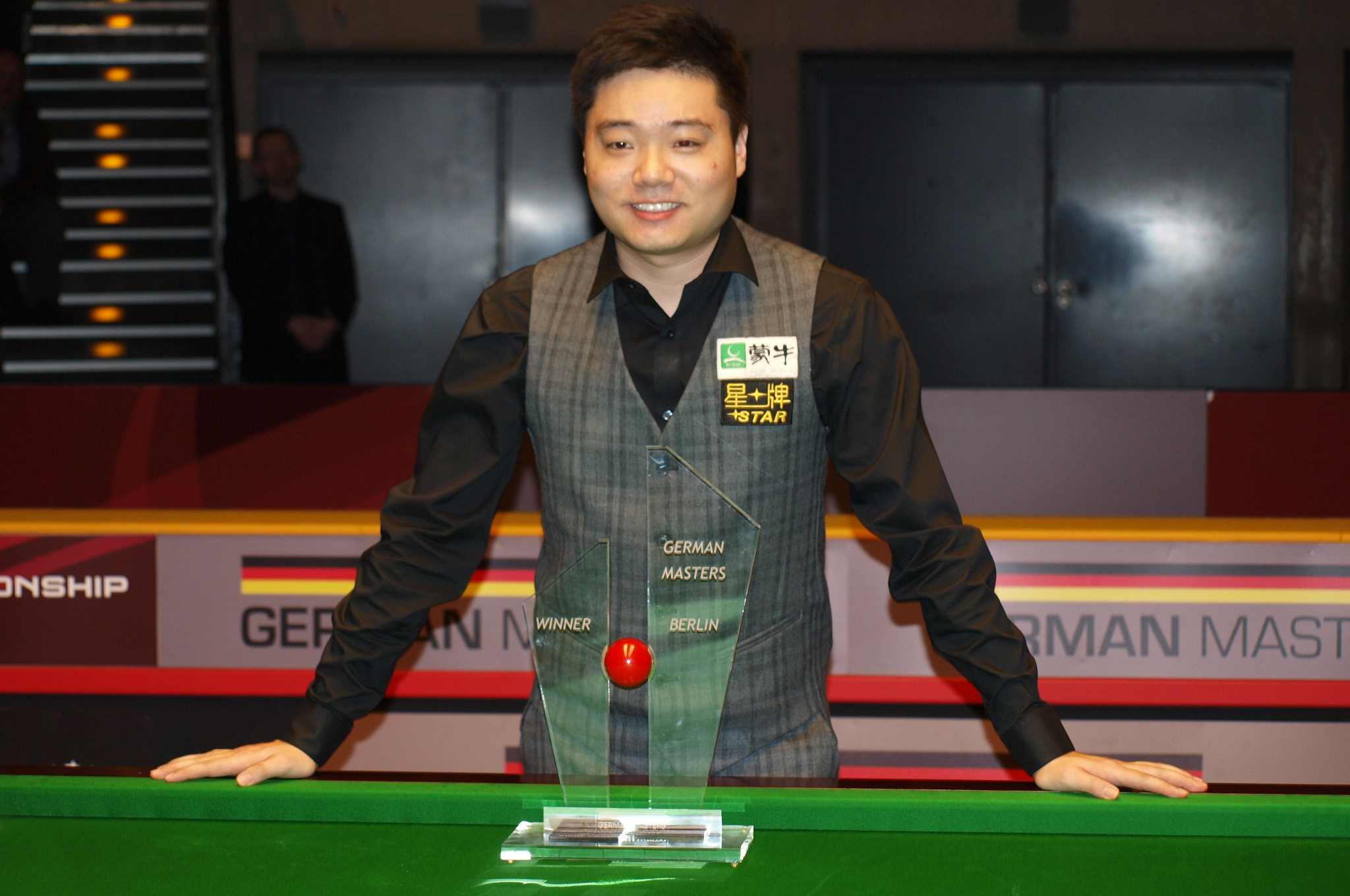 2nd session (final) presenting the trophy